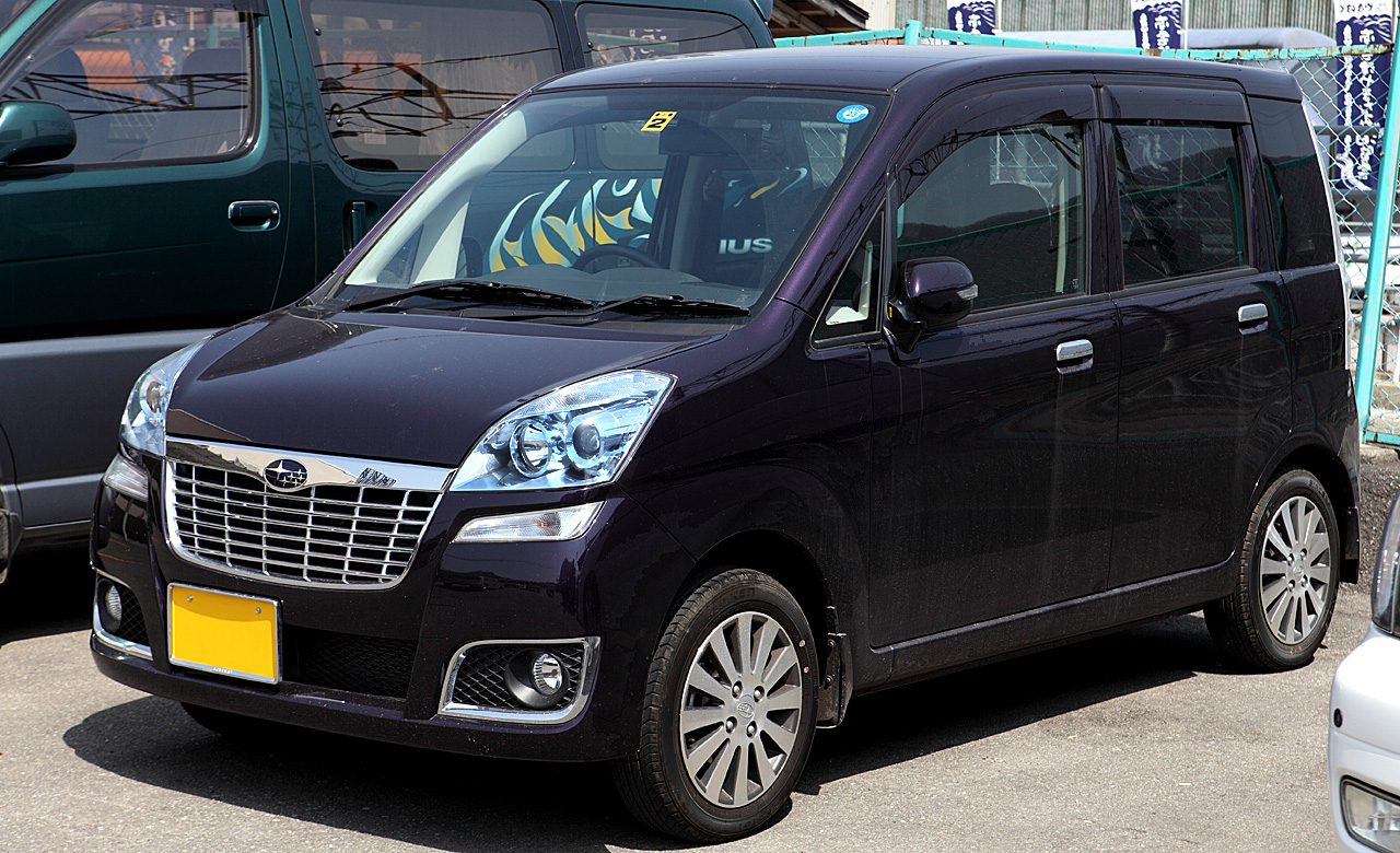 Subaru Stella Revesta